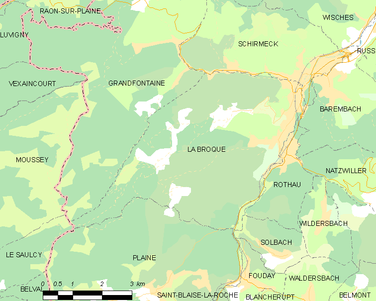 Map of French municipality